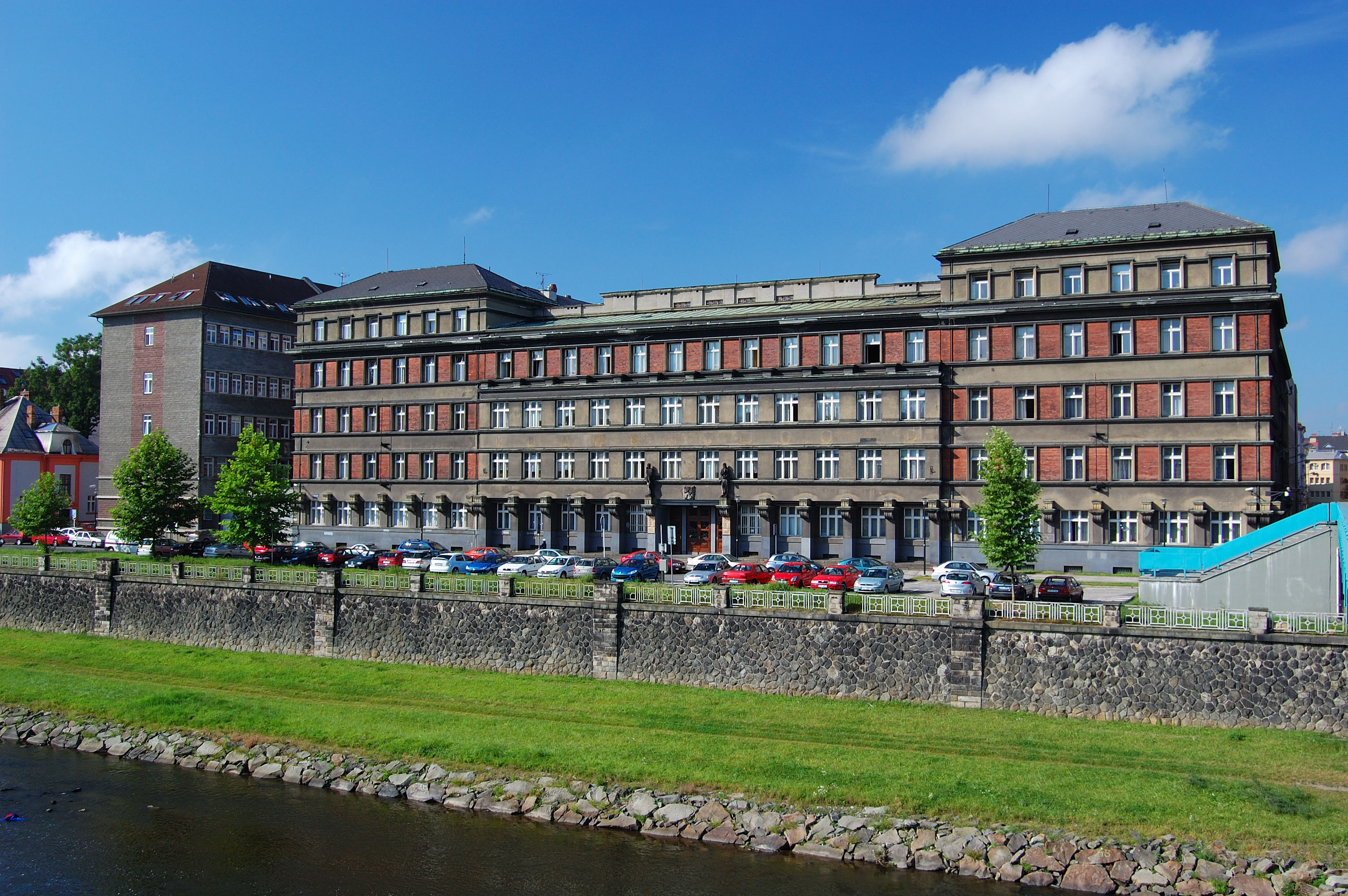 The regional courthouse in Ostrava, Czech Republic.